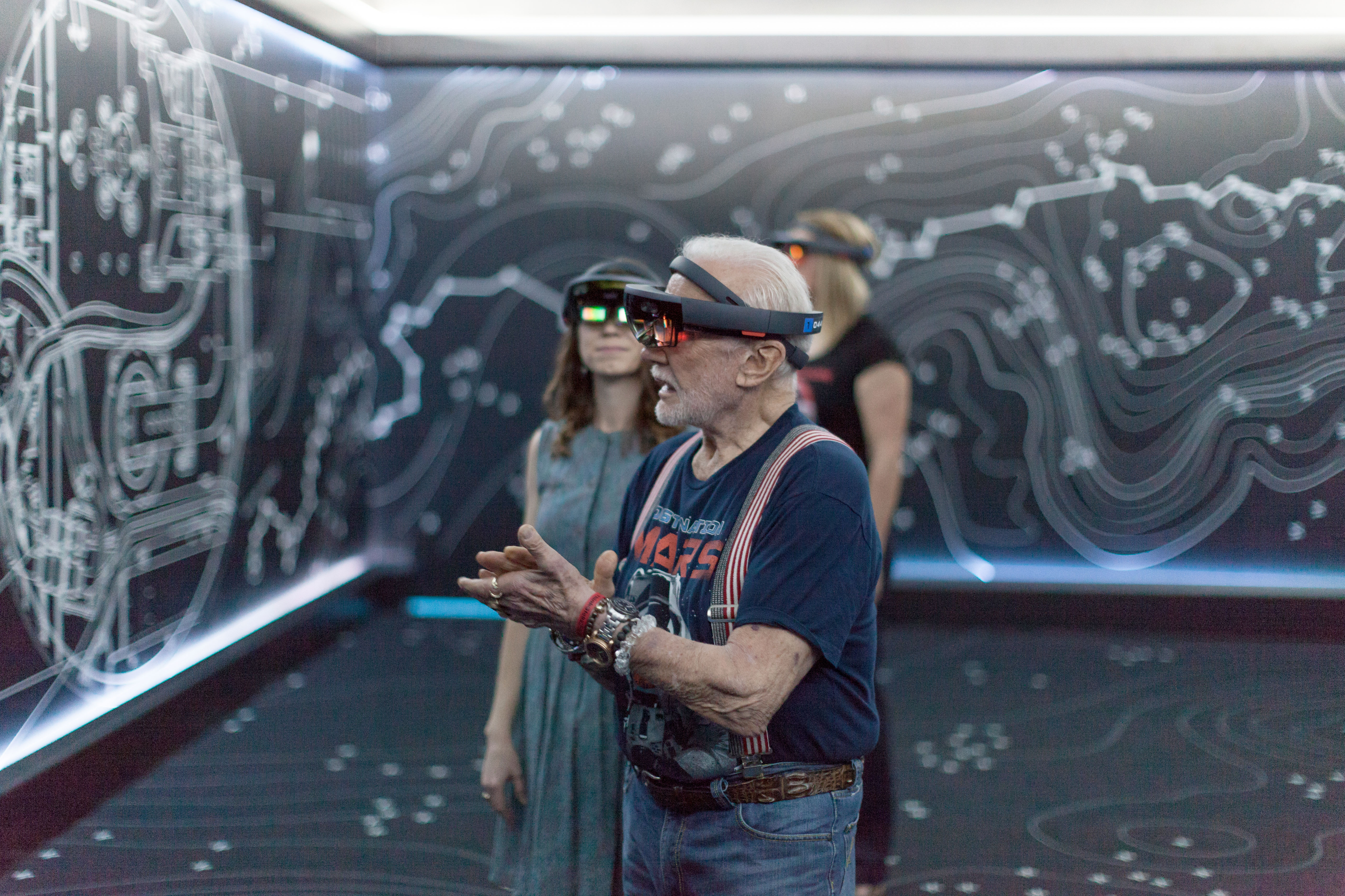 Apollo 11 astronaut Buzz Aldrin, right and Erisa Hines of NASA’s Jet Propulsion Laboratory (JPL) in Pasadena, California, speak to members of the news media during a preview of the new Destination: Mars experience at the Kennedy Space Center Visitor Complex. Destination: Mars gives guests an opportunity to “visit” several sites on Mars using real imagery from NASA’s Curiosity Mars Rover. Based on OnSight, a tool created by JPL, the experience brings guests together with a holographic version of Aldrin and Curiosity rover driver Hines as they are guided to Mars using Microsoft HoloLens mixed reality headset. Photo credit: NASA/Charles Babir NASA image use policy.